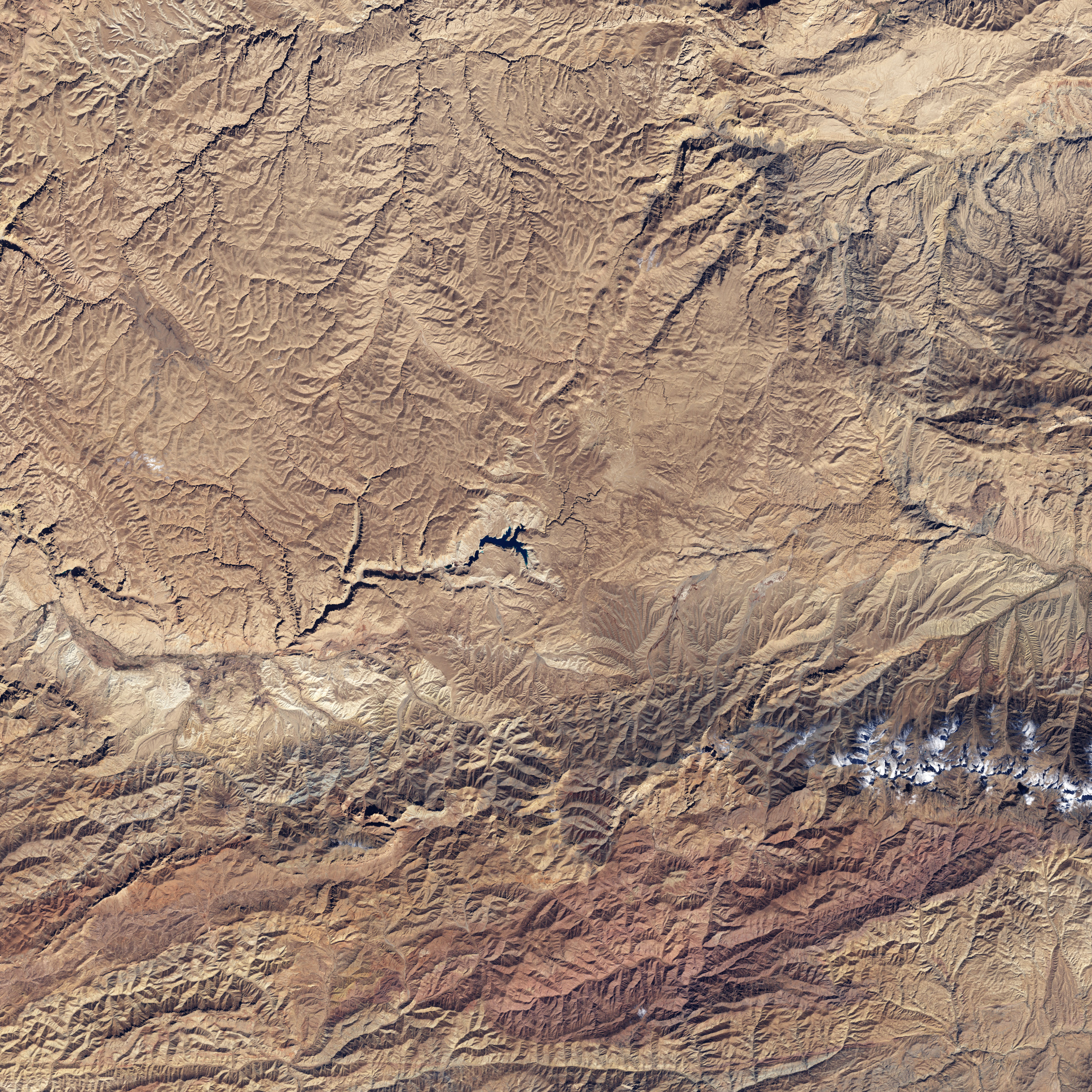 The starkness of the landscape highlights the ruggedness of the terrain around the lakes in this satellite image of Band-e-Amir National Park. Towering cliffs create sharp lines and shadows on the south (bottom) side of many of the lakes. The lakes range in color from faint turquoise to deep blue.